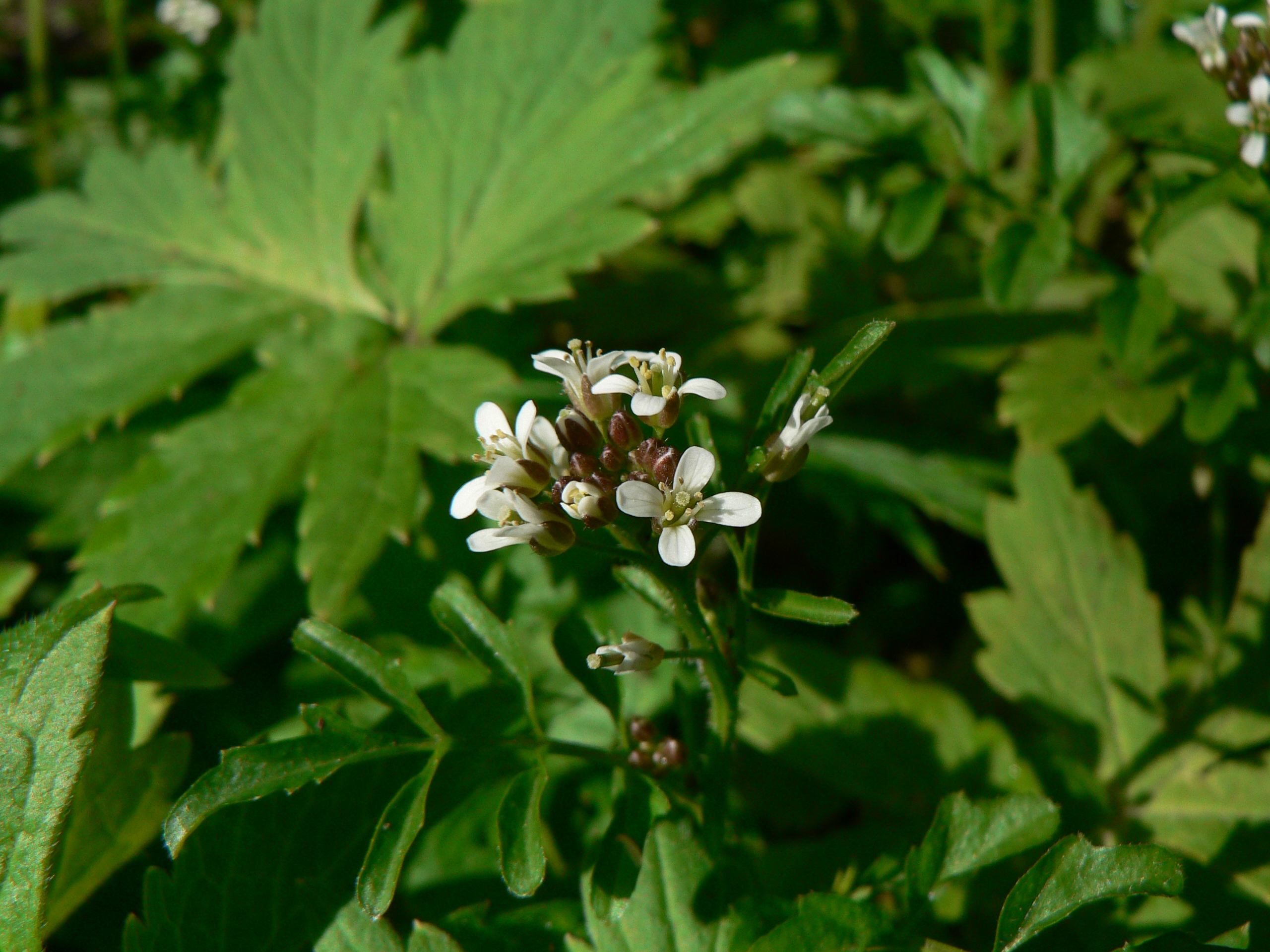 Little Western Bittercress, Siberian Bittercress, Umbellate Bittercress